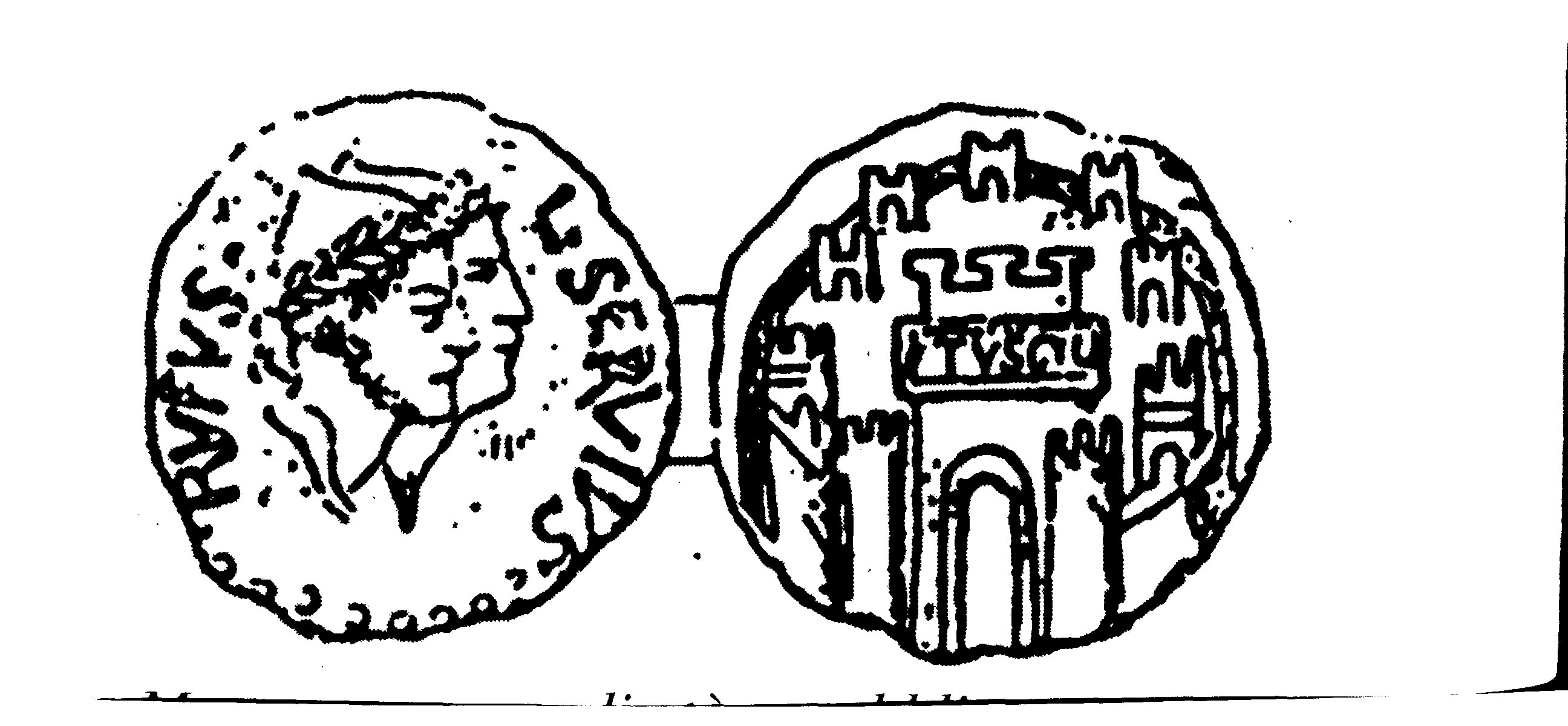 Photo of coin image by the autor from the old book (more 100 years) "Memorie historicae Tusculi antiqui quod nunc dicitur Frascati" of D.B. Mattei - Rome MDCCXI- Ancient Roman Republic coin of L. Servius Rufus (44-43 B.C.)Dioscuri figure on left - Tusculum fortress on right